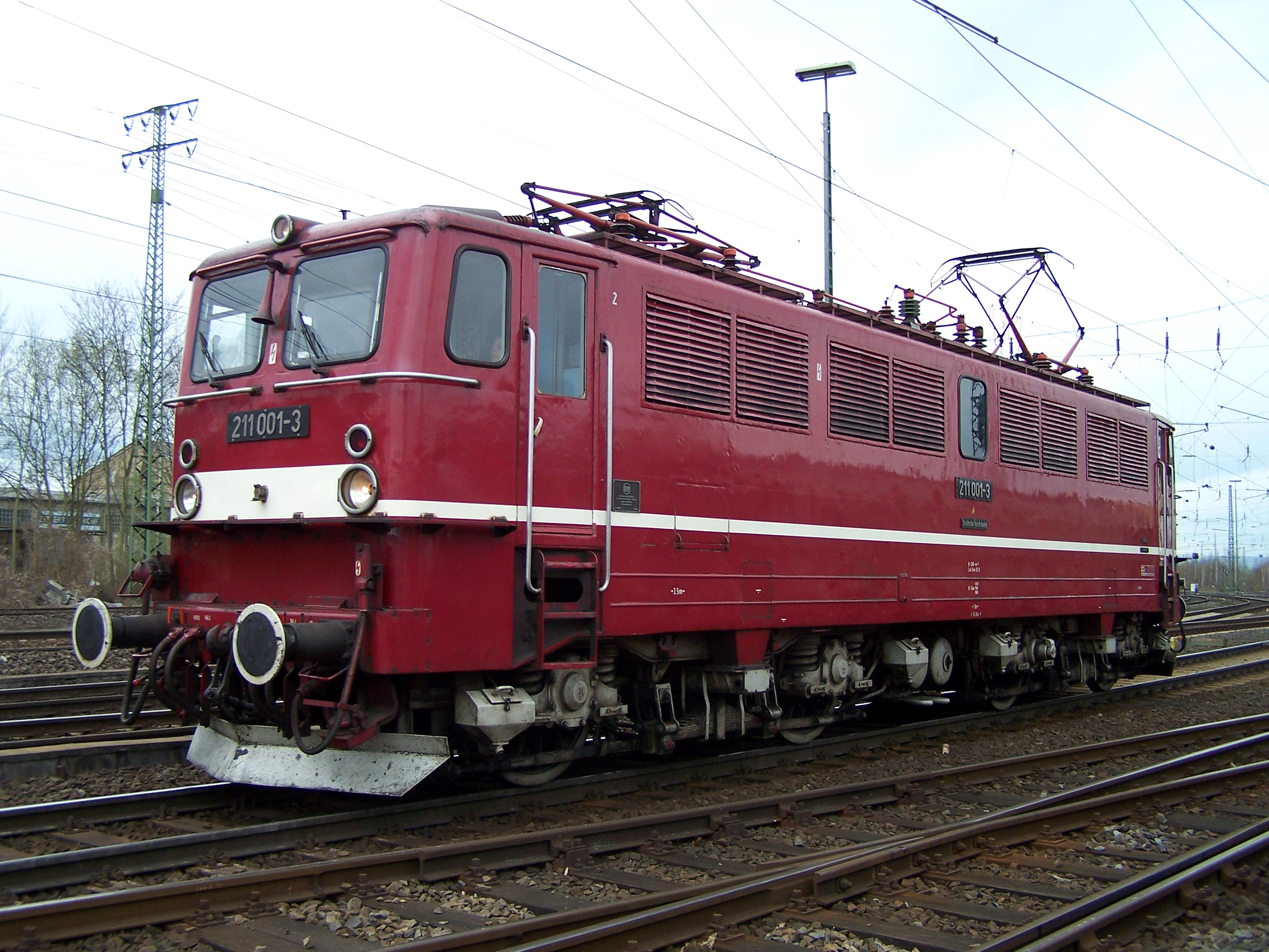 Electric locomotive 211 001 during a locomotive parade at the DB Museum in Koblenz-Lützel, a local branch of the Transport Museum in Nuremberg, April 2010